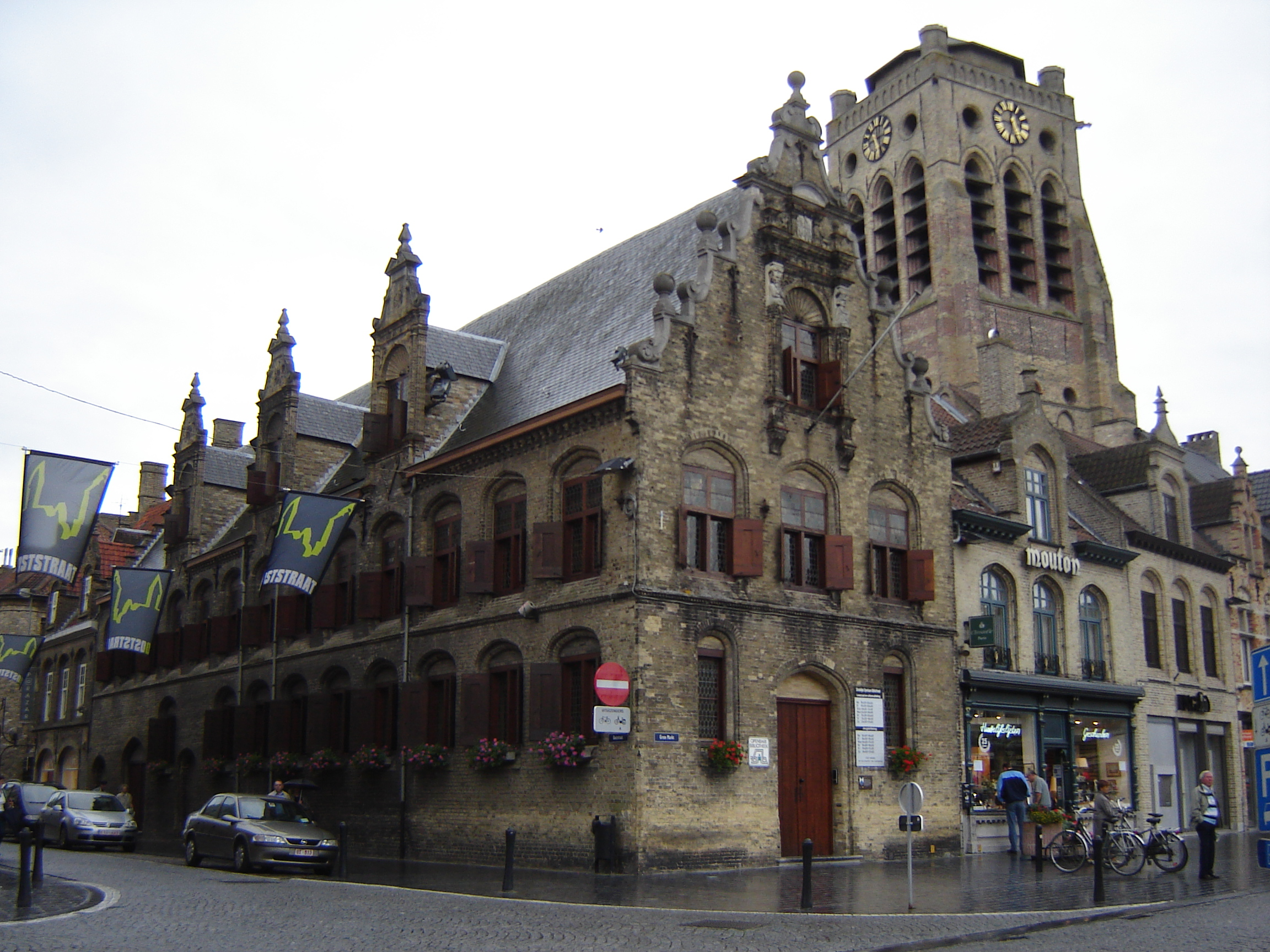 Form meat hall (1615) on the market square of Veurne. Nowadays city library. On the background, the church of Saint Nicolas. Veurne, West Flanders, Belgium